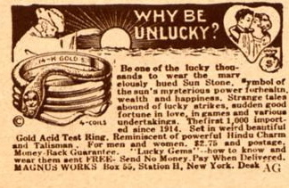 1926 US advertisement for lucky jewelry . "Why Be Unlucky?".